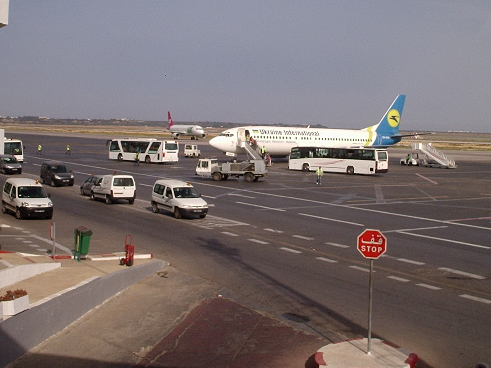 Boeing-737 MAU at Monastir Airport